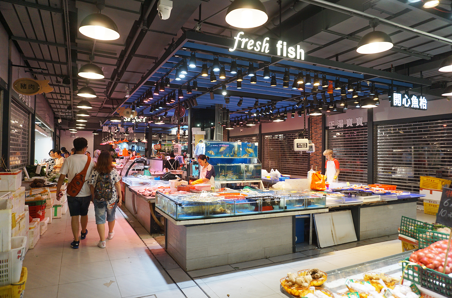 K-mart Fresh Market in Tseung Kwan O, Hong Kong.